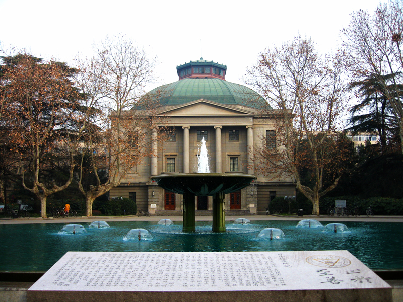 Auditorium of Southeast University, which was formally named National Central University, in Nanjing's winter